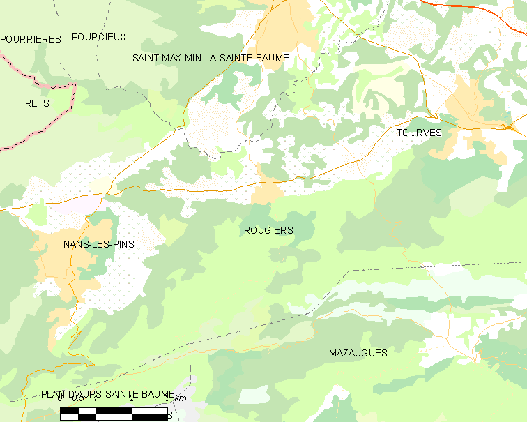 Map of French municipality Rougiers